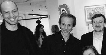 The popular comedians Aldo, Giovanni & Giacomo